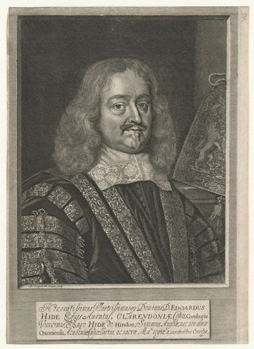 Edward Hyde, 1st Earl of Clarendon